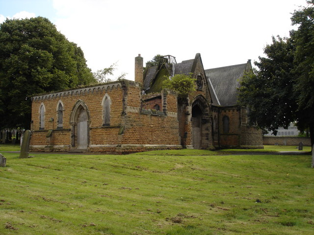 Basford Cemetery Chapel of Rest This must have been derelict for some quite considerable time: the range on the left has completely lost its roof and has some quite mature trees growing inside it.